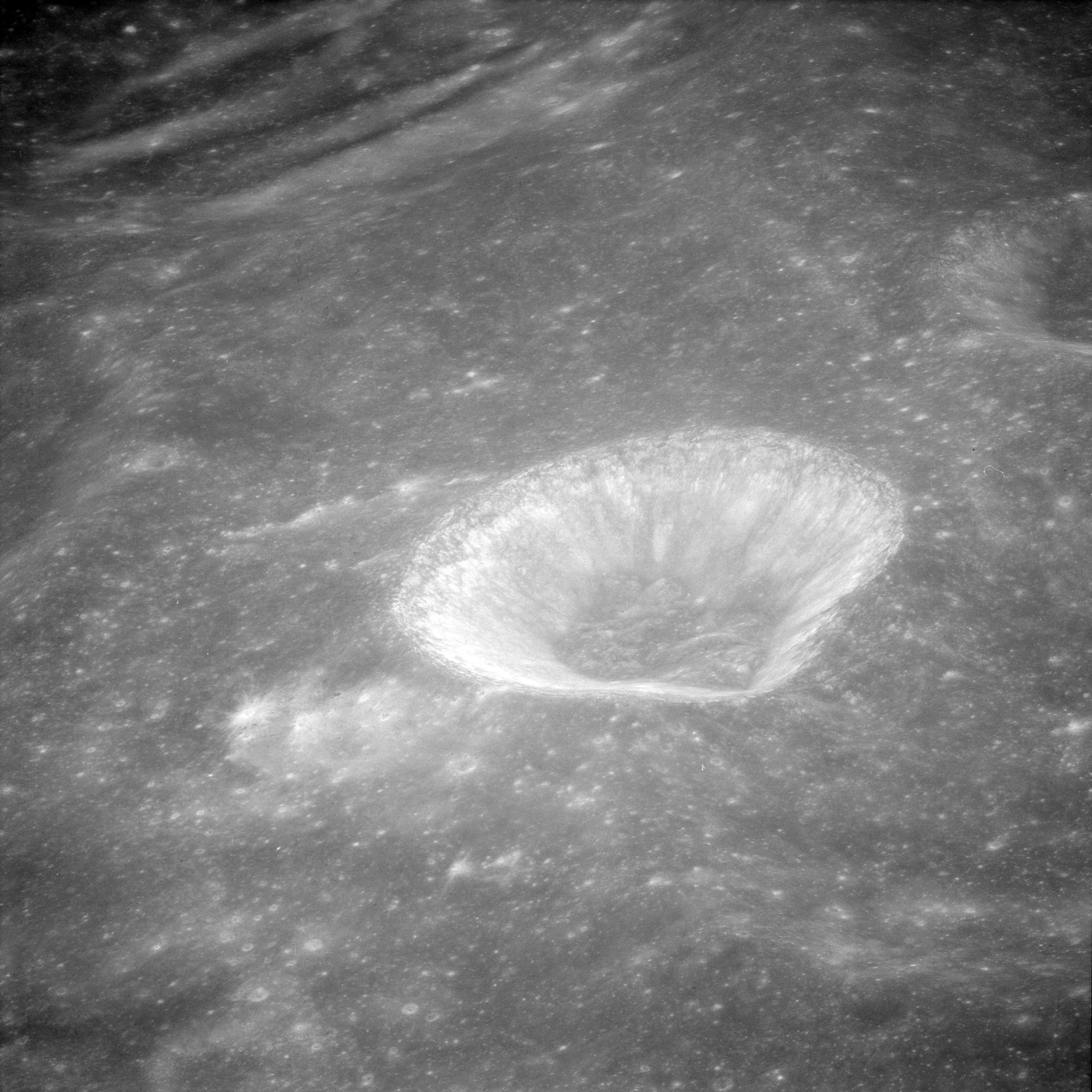 Oblique view of Al-Khwarizmi K crater, on the moon.